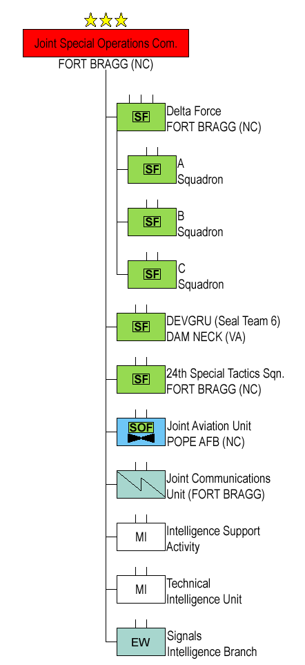 Joint Special Operations Command Order of Battle chart